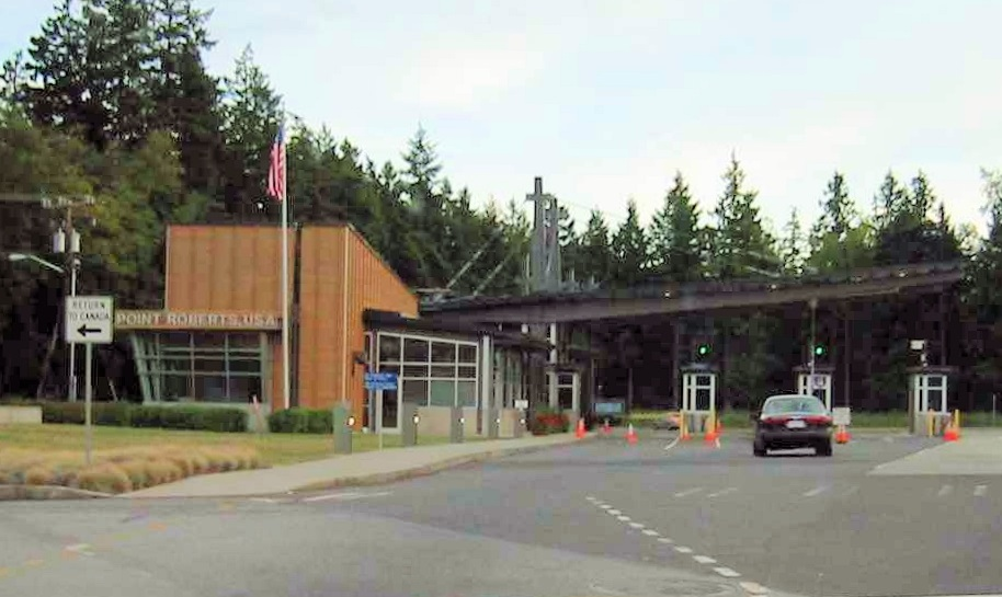 US Border Inspection Station at Point Roberts WA